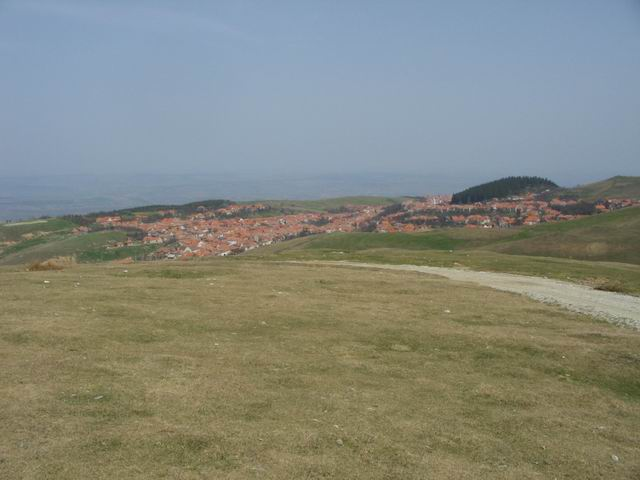 View over Poiana Sibiului village, Sibiu County, Romania